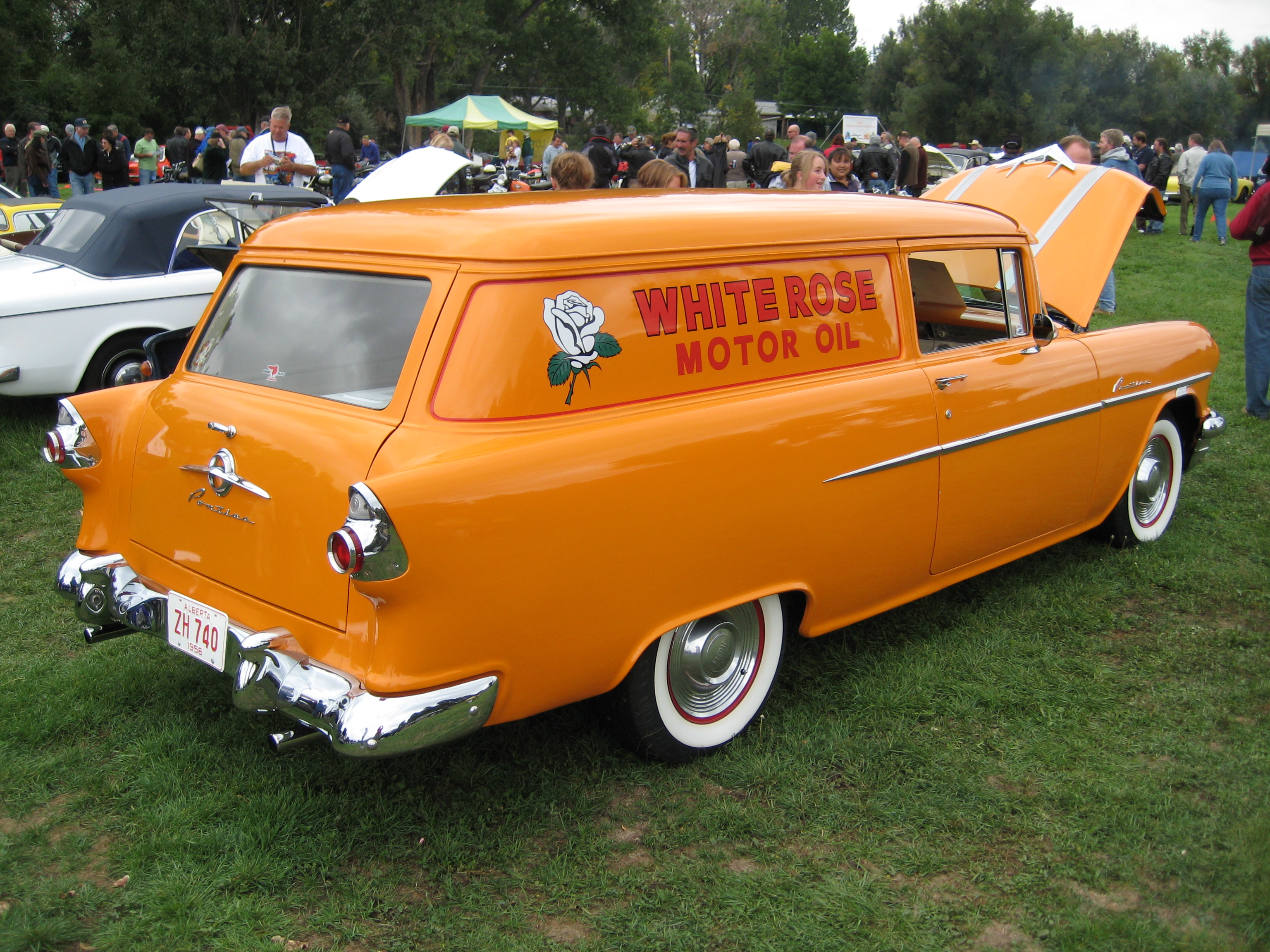 1956 Canadian Pontiac Pathfinder Sedan Delivery: 1383 built, not available in USA. Like all Canadian built Pontiacs of the era, built on a Chevrolet chassis, with Chevrolet engines. And for station wagons and sedan deliveries, same body behind firewall.